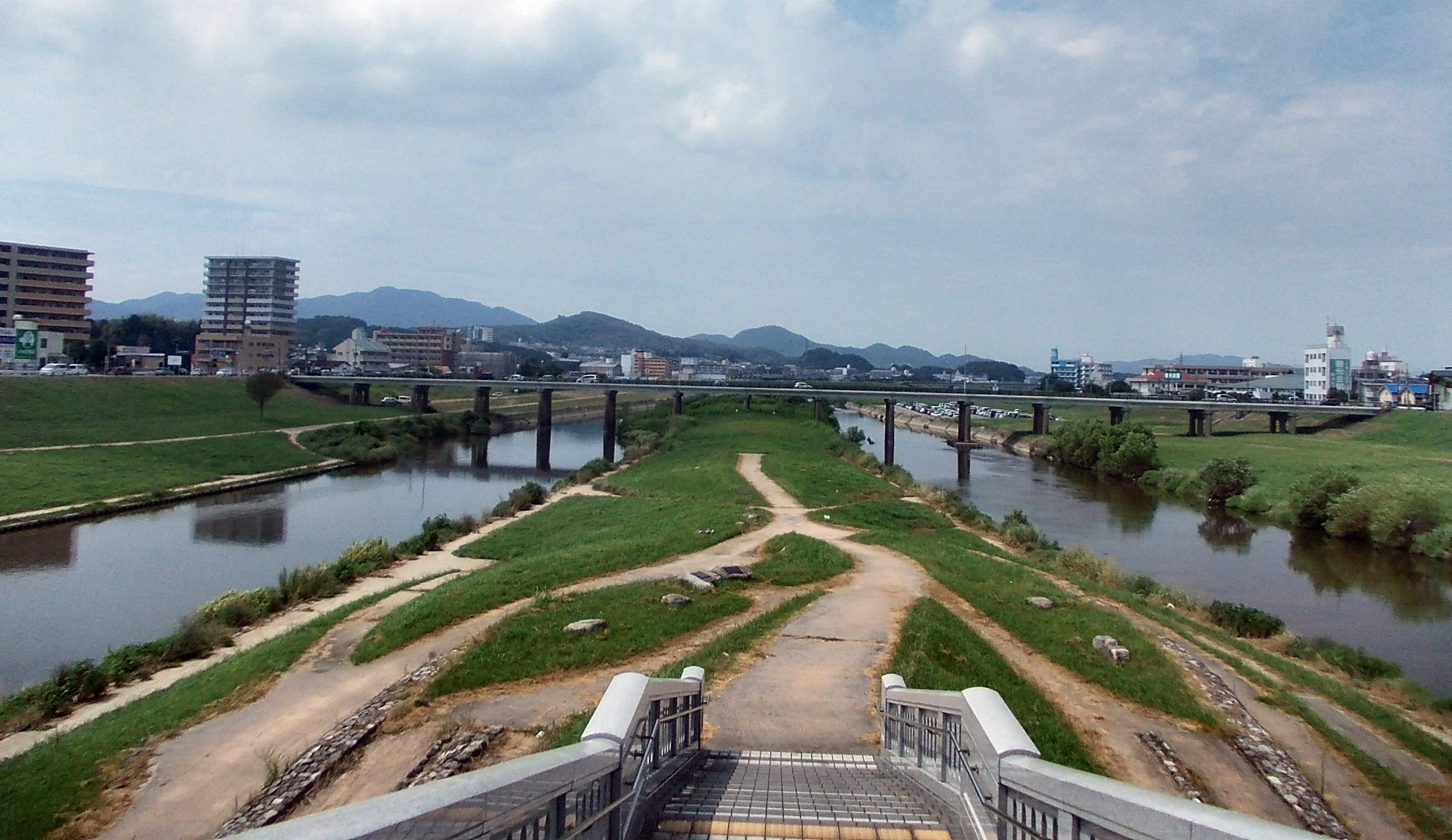 The Onga River seen from Yoshio Bridge, Iizuka, Fukuoka, Japan. The bridge is located at the confluence of Onga and Honami Rivers.